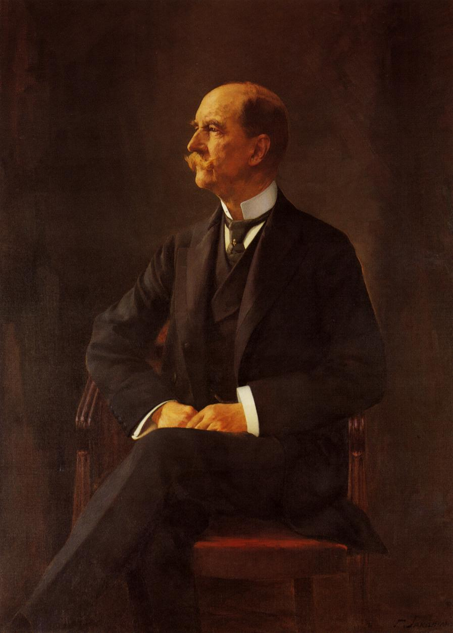 Posthumous portrait of King George I